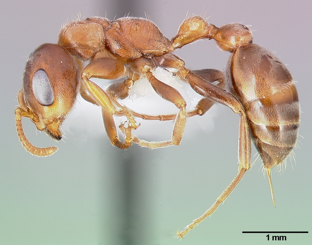 Profile view of ant Pseudomyrmex ferrugineus specimen casent0005785.